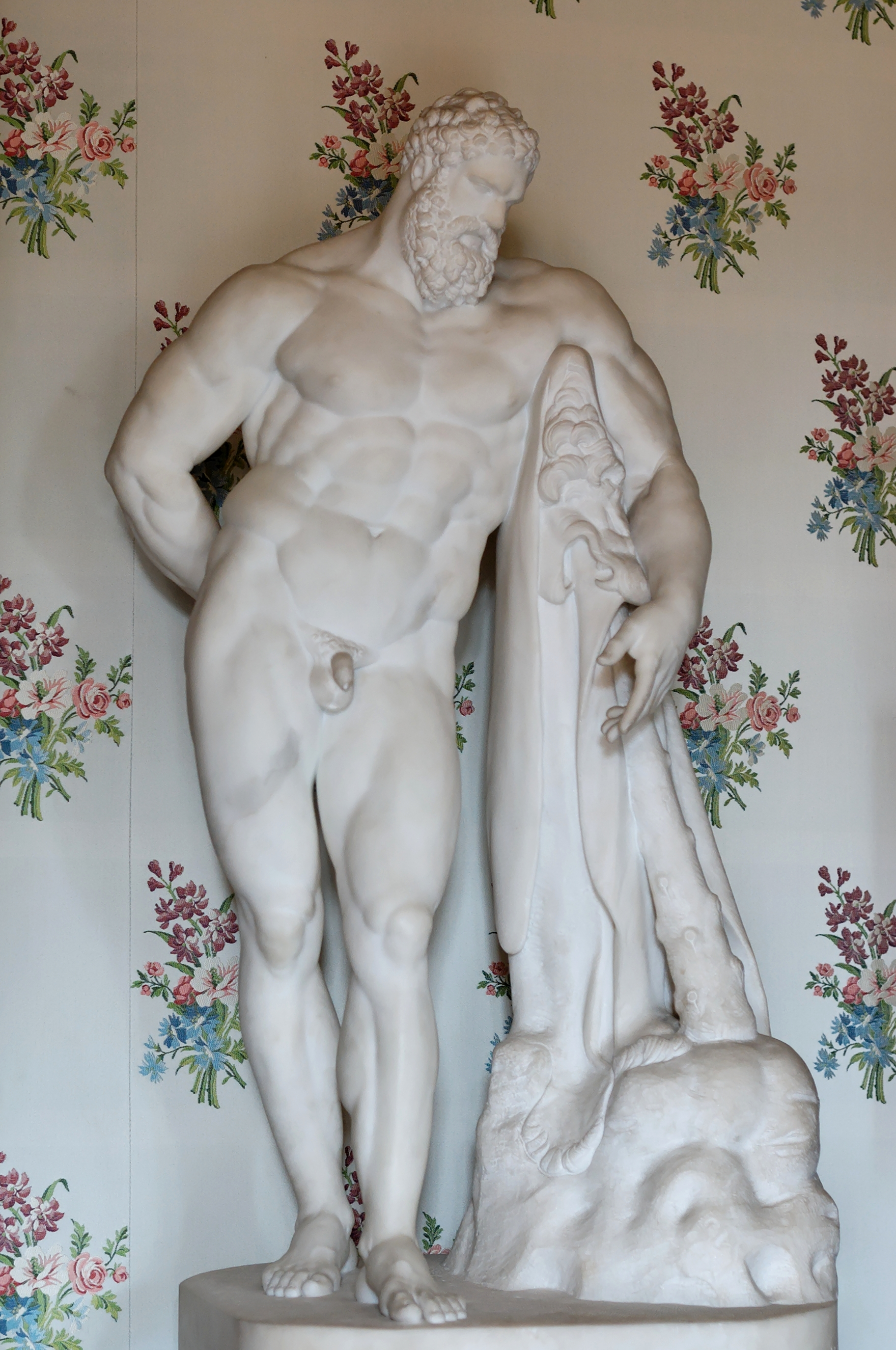 Hercules Farnese, scale-down copy of the antique original. Marble, date unspecified.